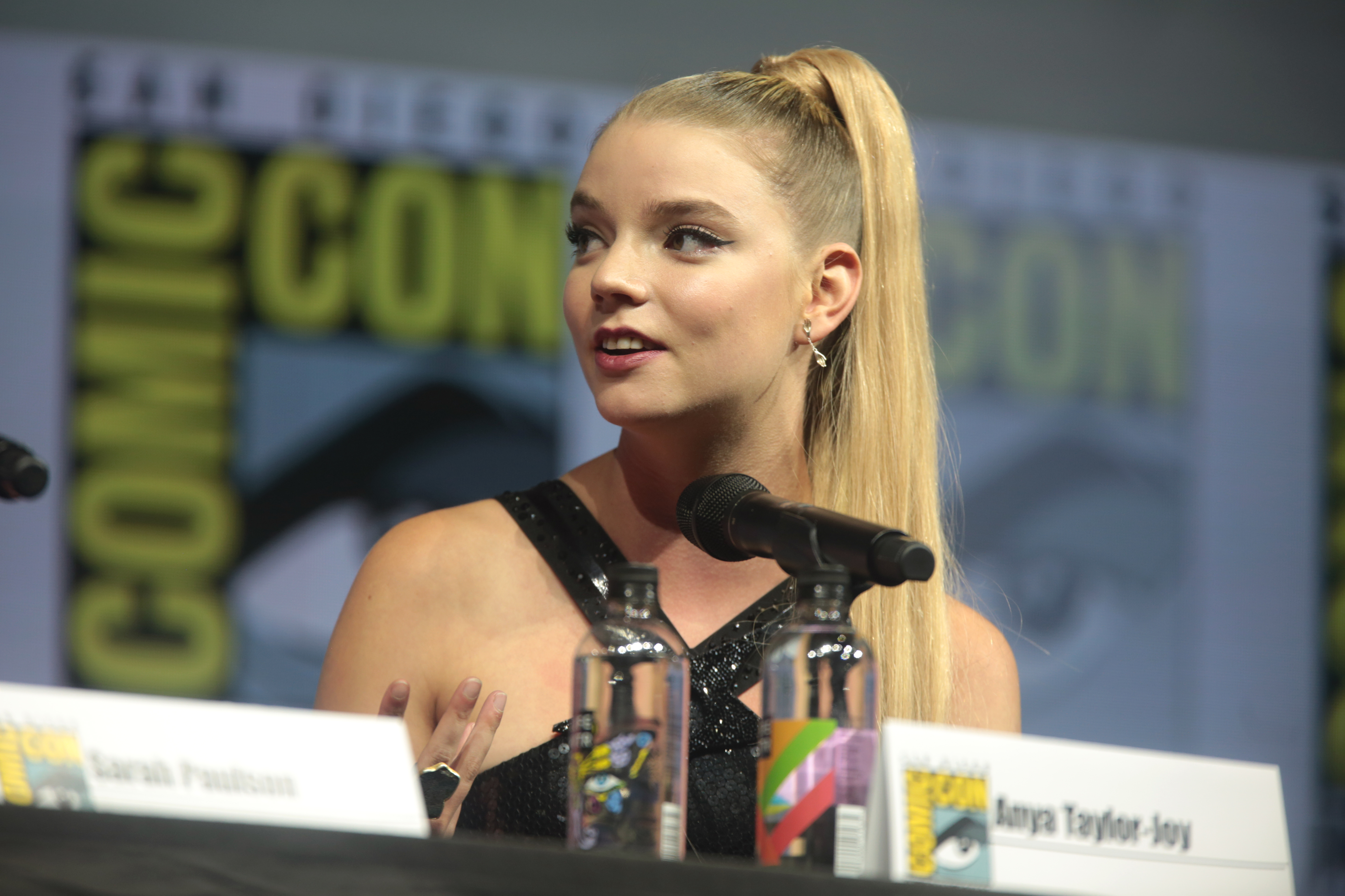 Anya Taylor-Joy speaking at the 2018 San Diego Comic Con International, for "Glass", at the San Diego Convention Center in San Diego, California.